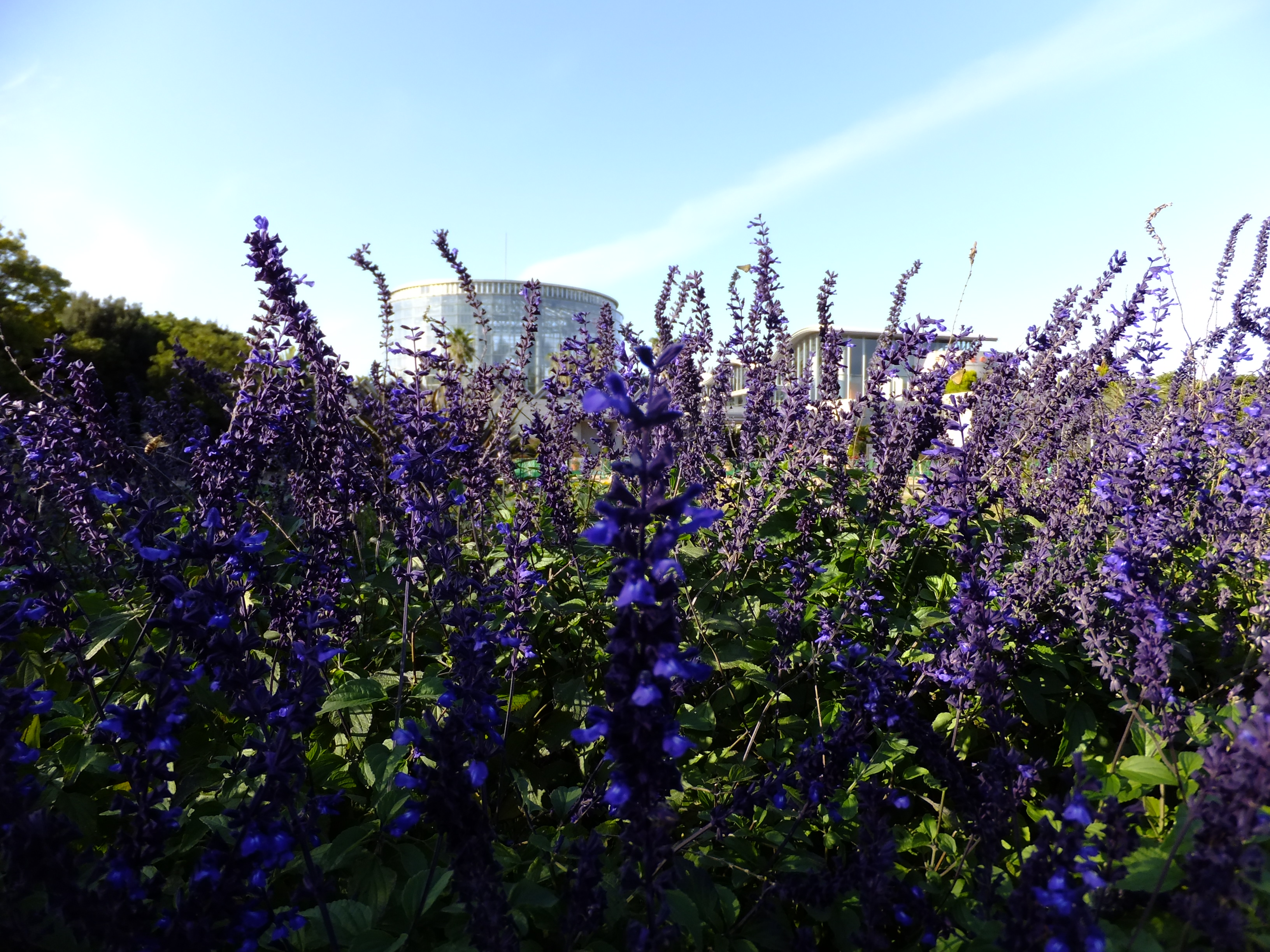 Salvia Indigo Spires in the Chiba City Floral Museum; Chiba City, Japan.